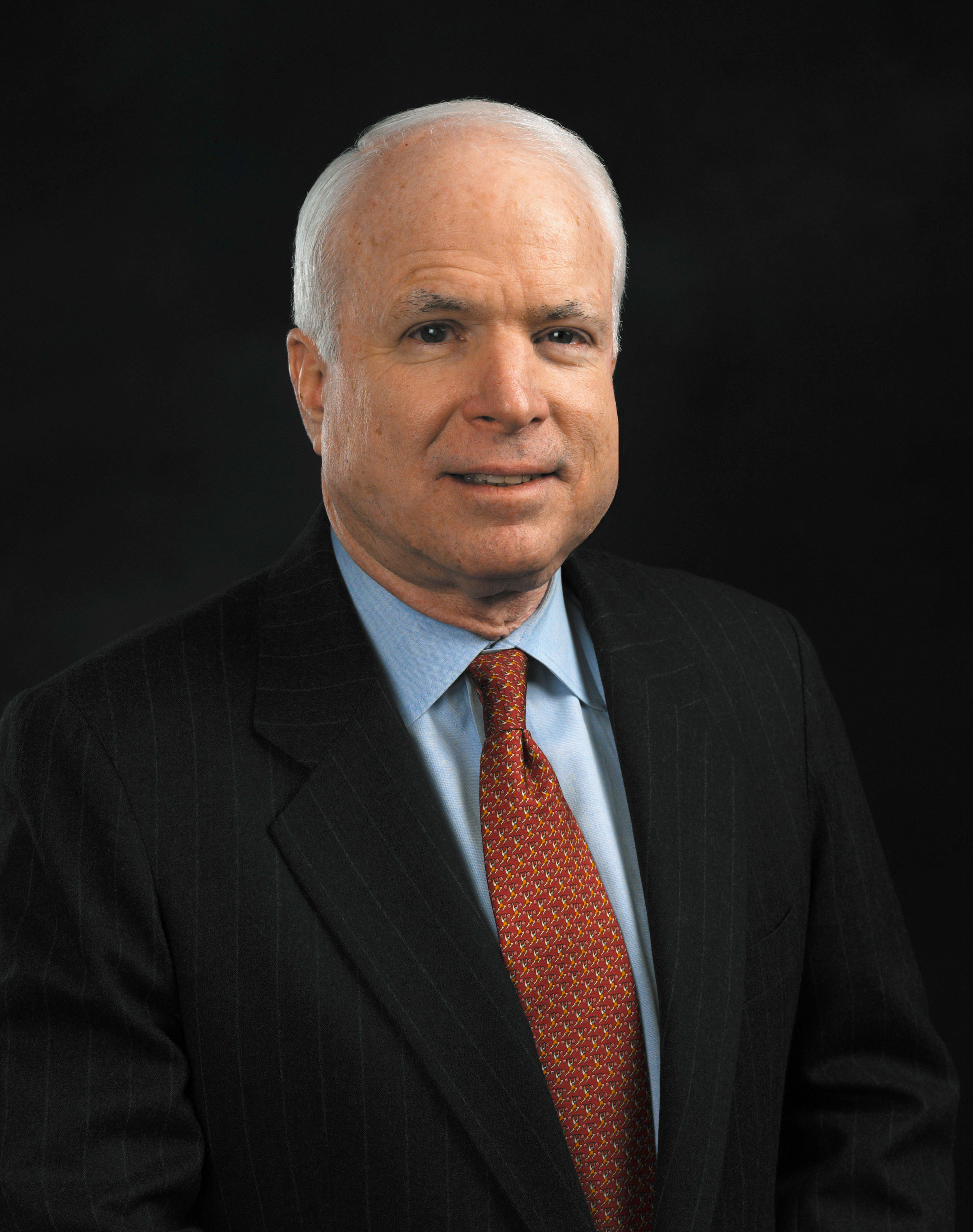 John McCain official photo portrait.